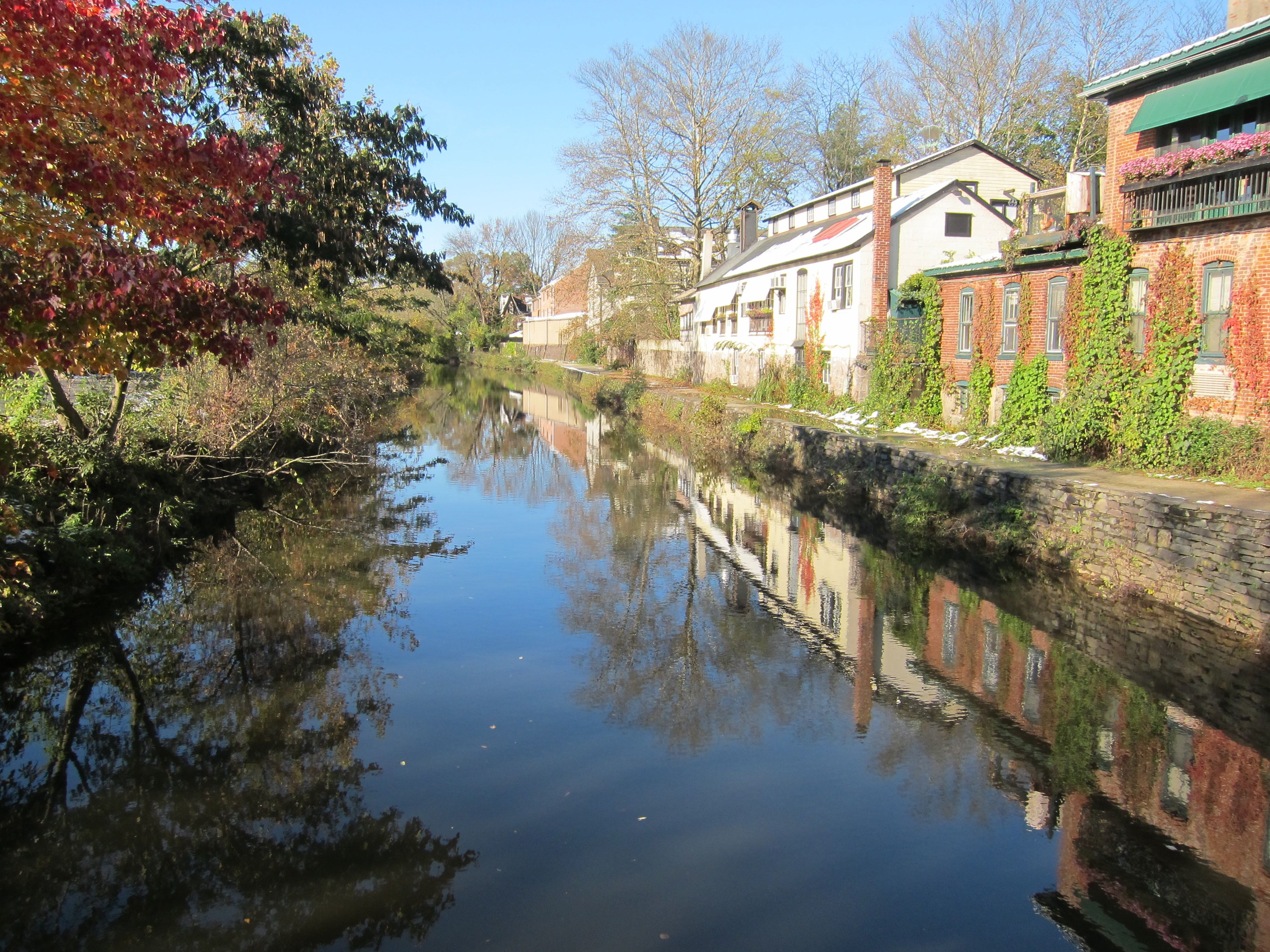 At Coryell St & Canal Path